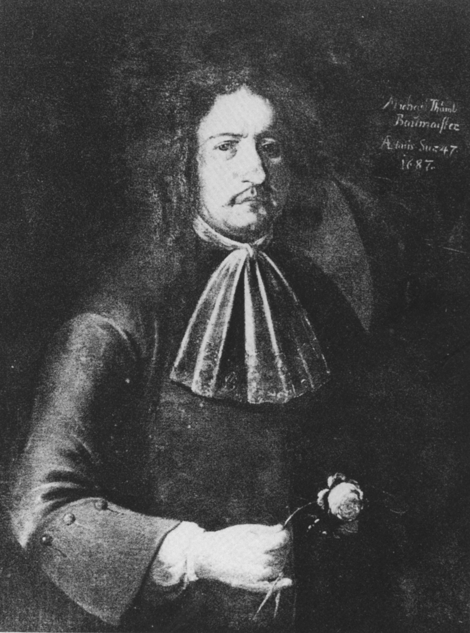 Michael Thumb